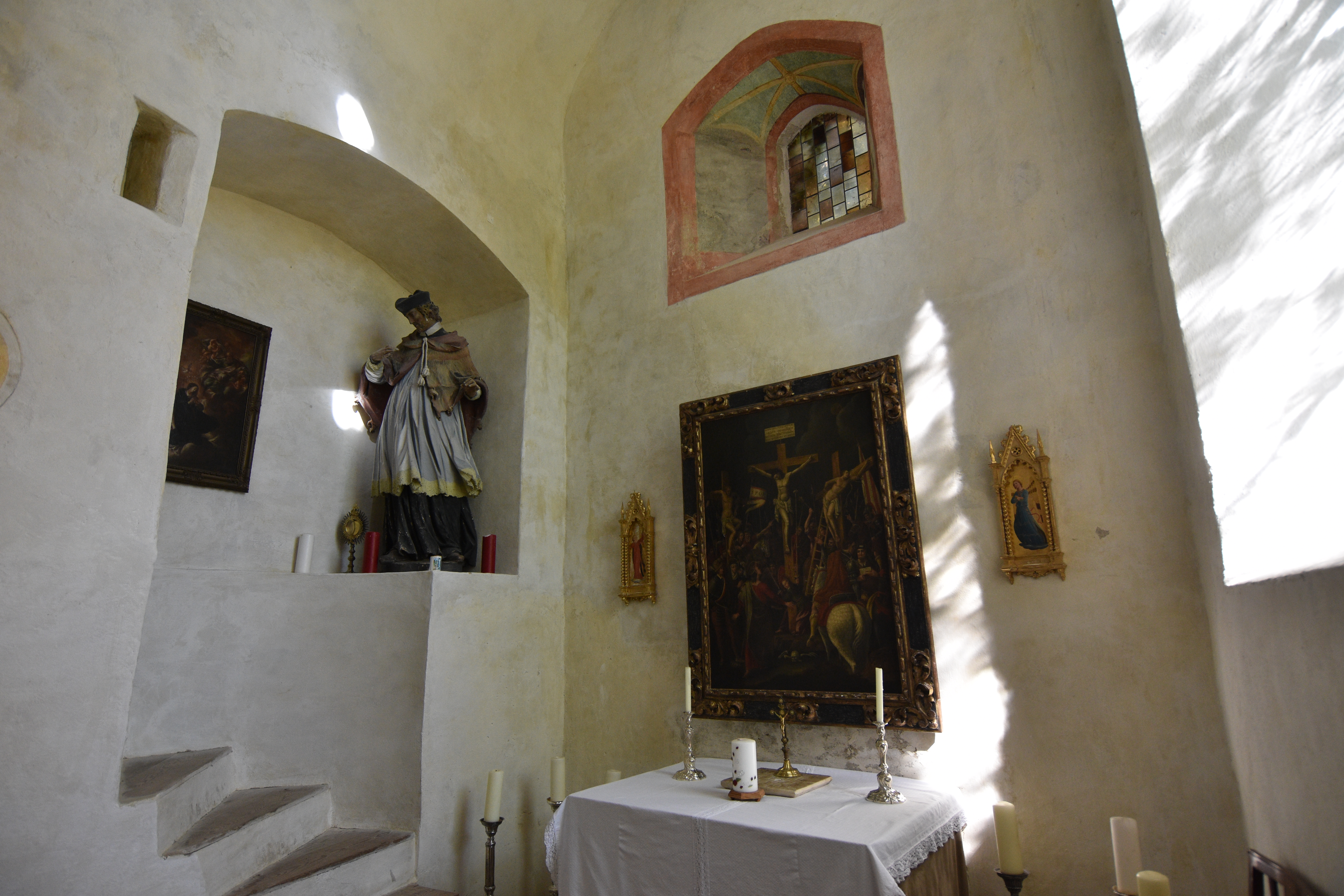 Chapel Schloss Gutenberg, Styria Interior